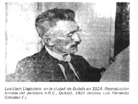 Luis Fernando González Escobar explains in his study La Arquitectura de Luis Llach Llagostera: An unprecedented Route for Architecture in America as this architect is part of a key moment in the history of urbanism in the Latin American region: 1880 and 1920 the emergence of the city, on the rural environment.